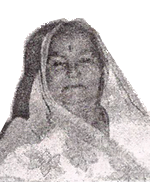 A rare photograph of the mother of Jagadguru Rambhadracharya